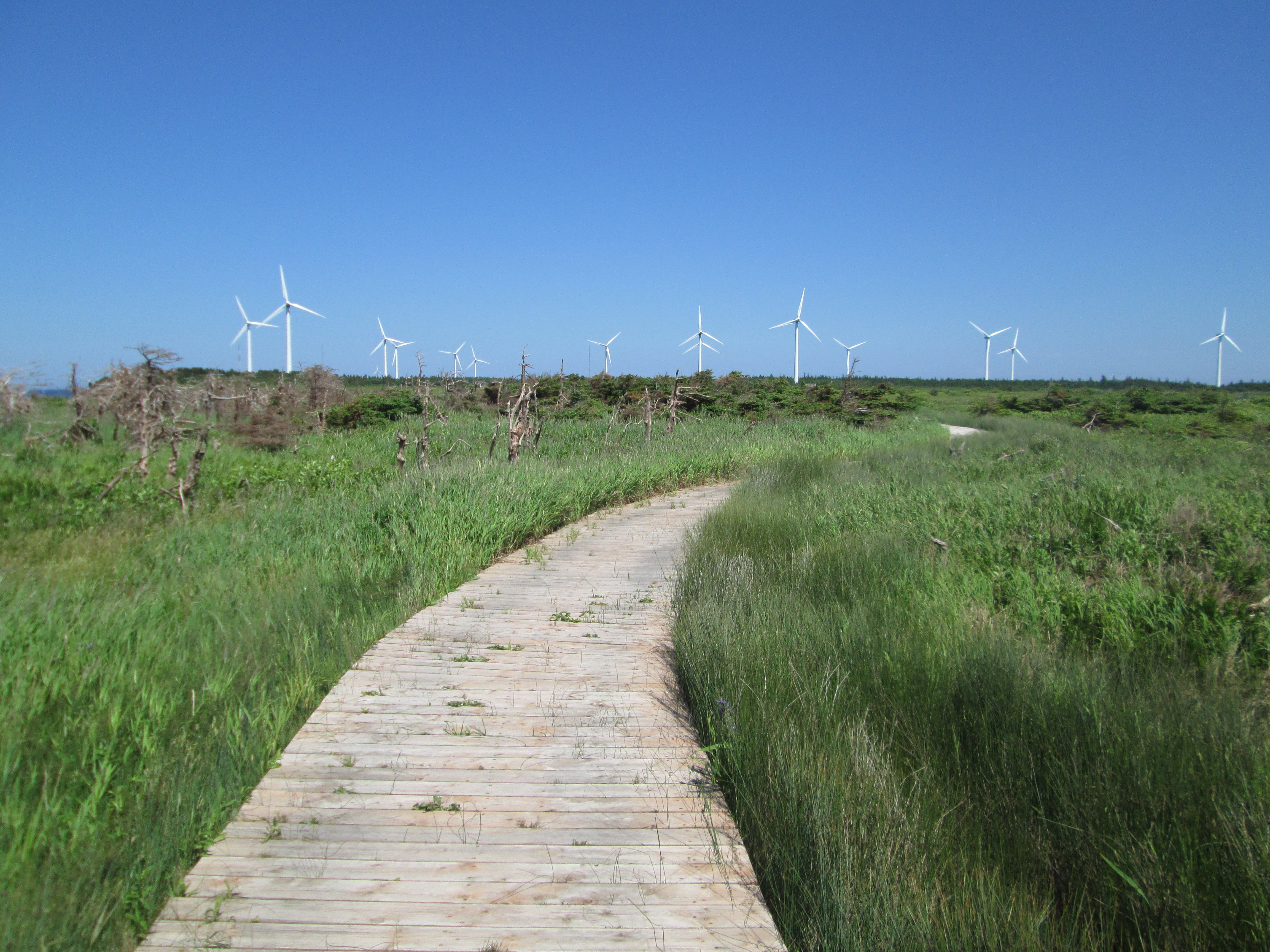 July 9, 2017